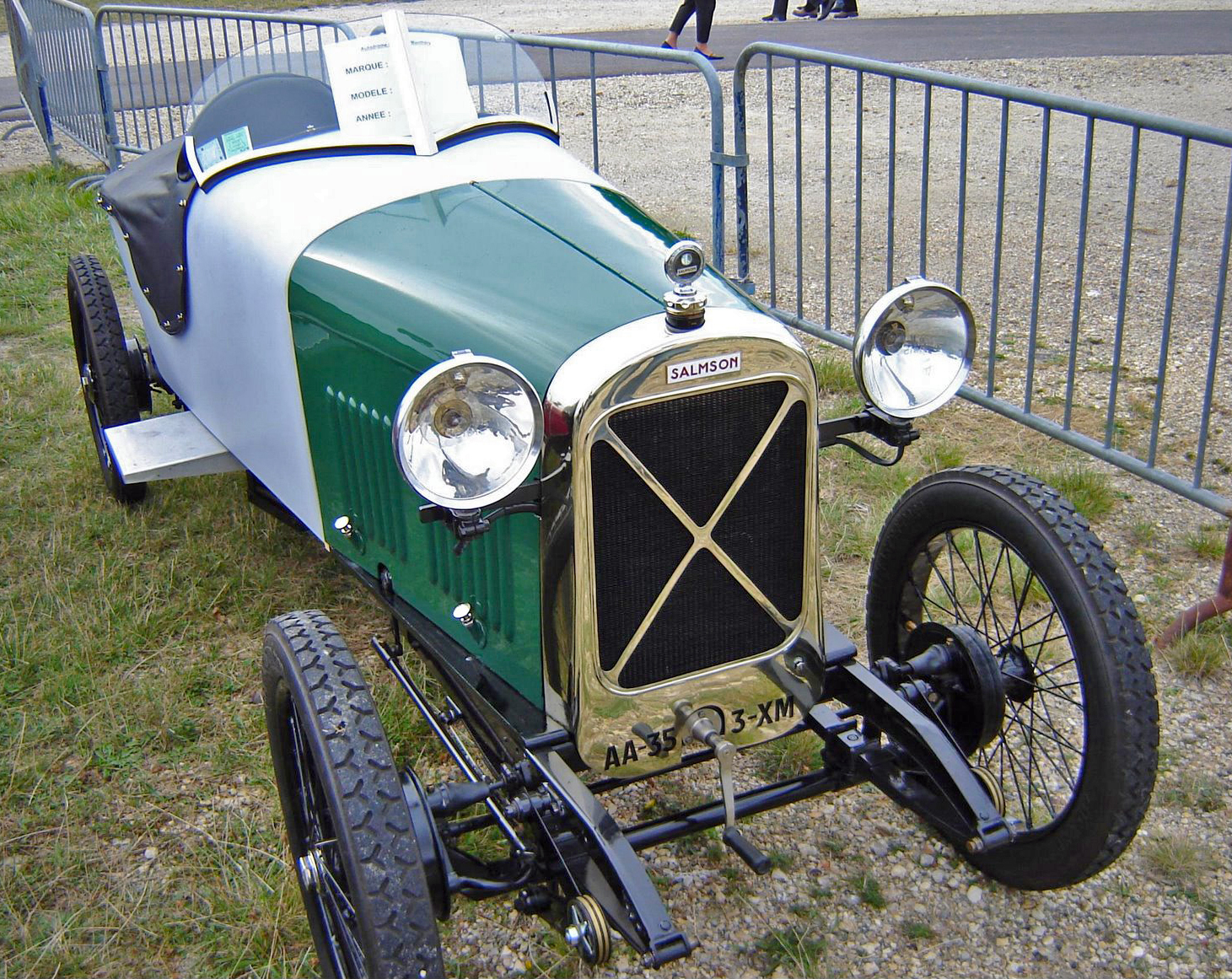 1923 Salmson VAL3 at the Autodrome de Linas-Montlhéry, 2009